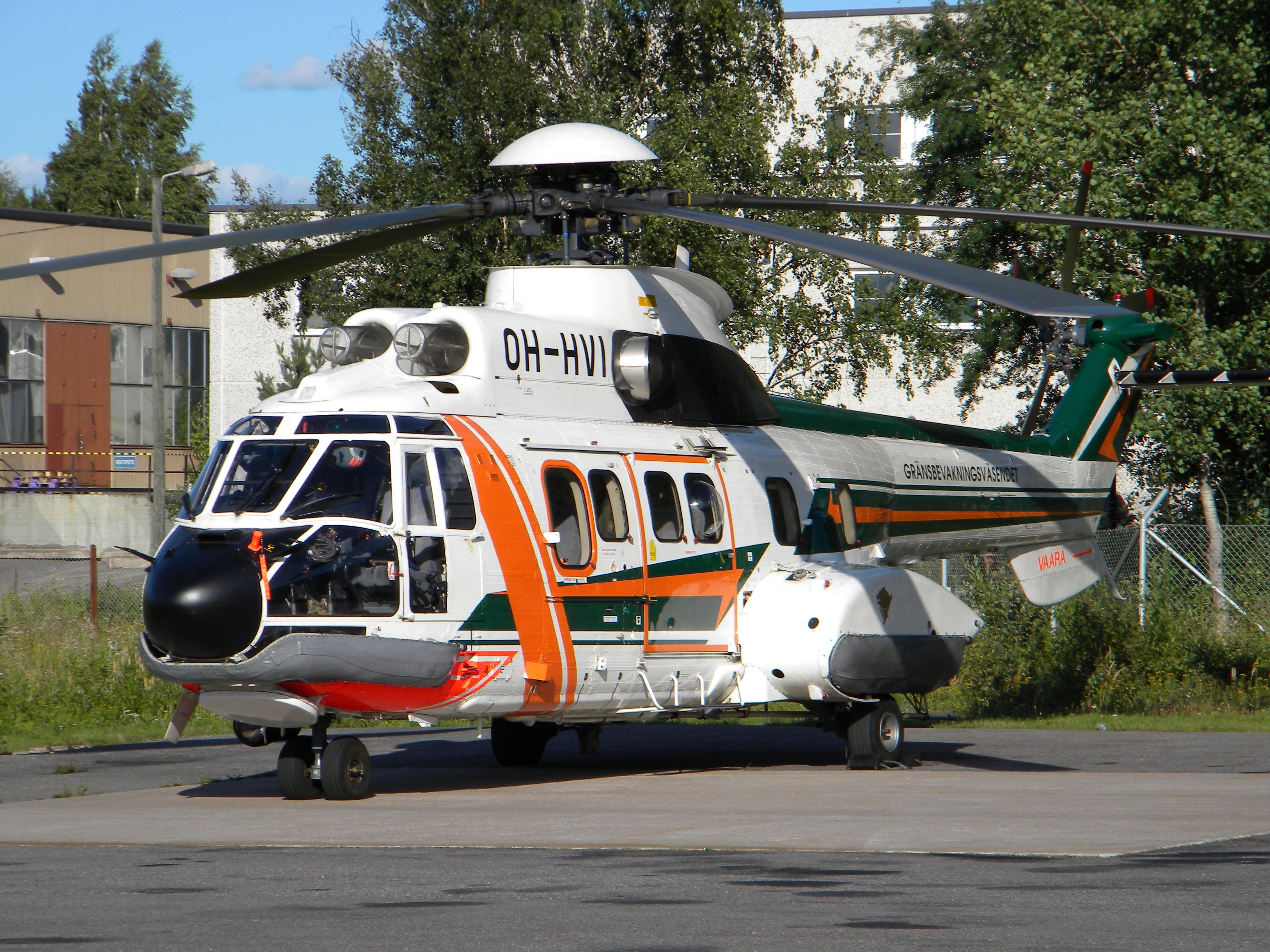 AS-332 Super Puma rescue helicopter of the Finnish Border Guard.